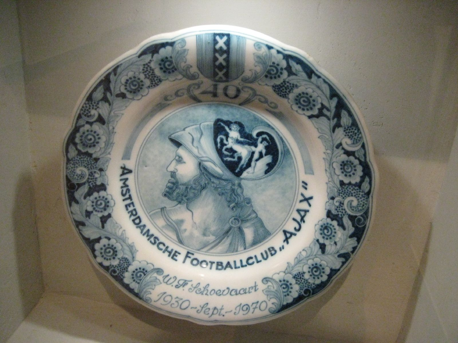 A plate received by Wim Schoevaart on his fortieth anniversary at Ajax.